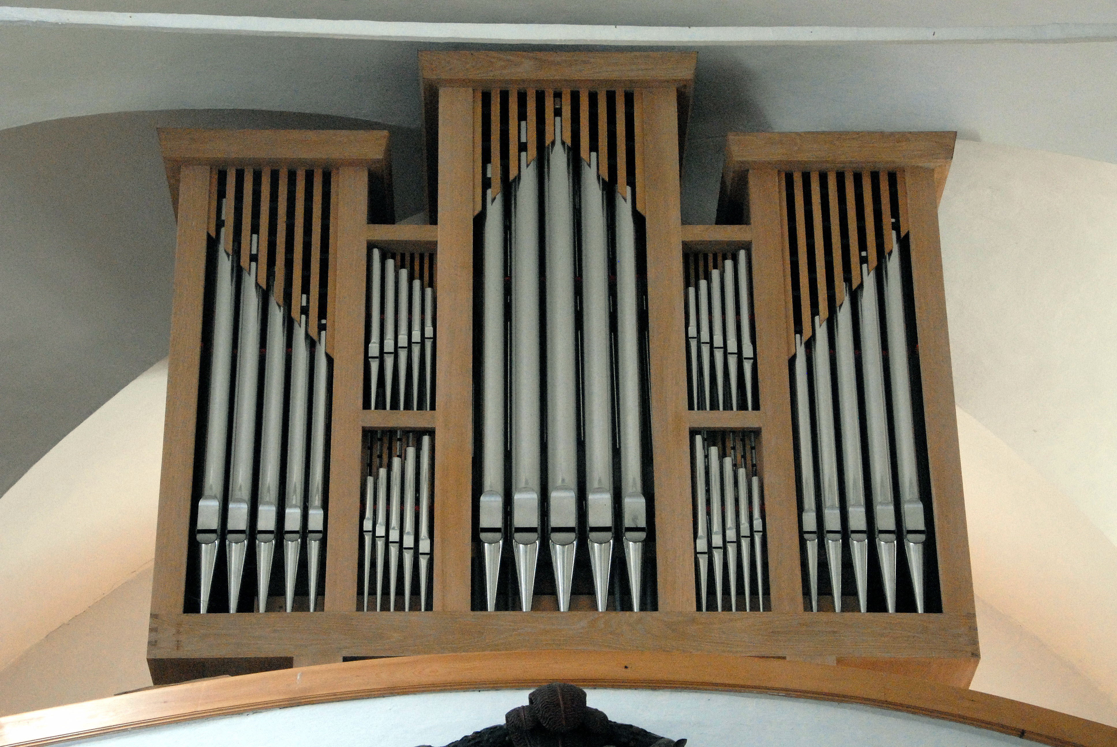 Organ of the parish church Saint Martin im Granitztal in the community Saint Paul im Lavanttal, district Wolfsberg, Carinthia, Austria